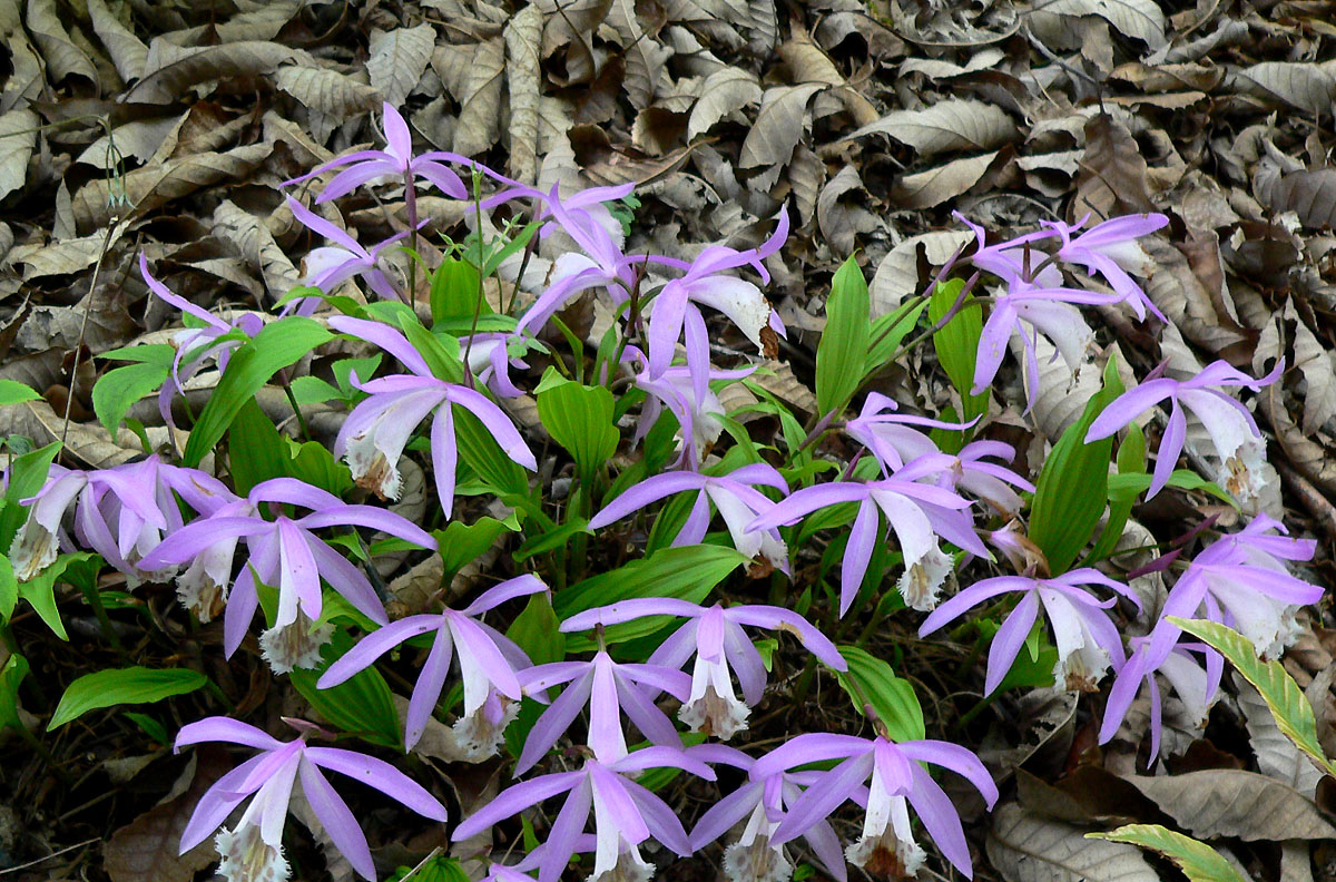 Pleione formosana at the University of California Botanical Garden, Berkeley, California